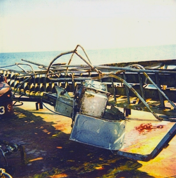 By seawash damaged front gangway of the tanker Oshima Spirit after a typhoon in the China Sea in November 1993, photographed by Uwe Schwarz